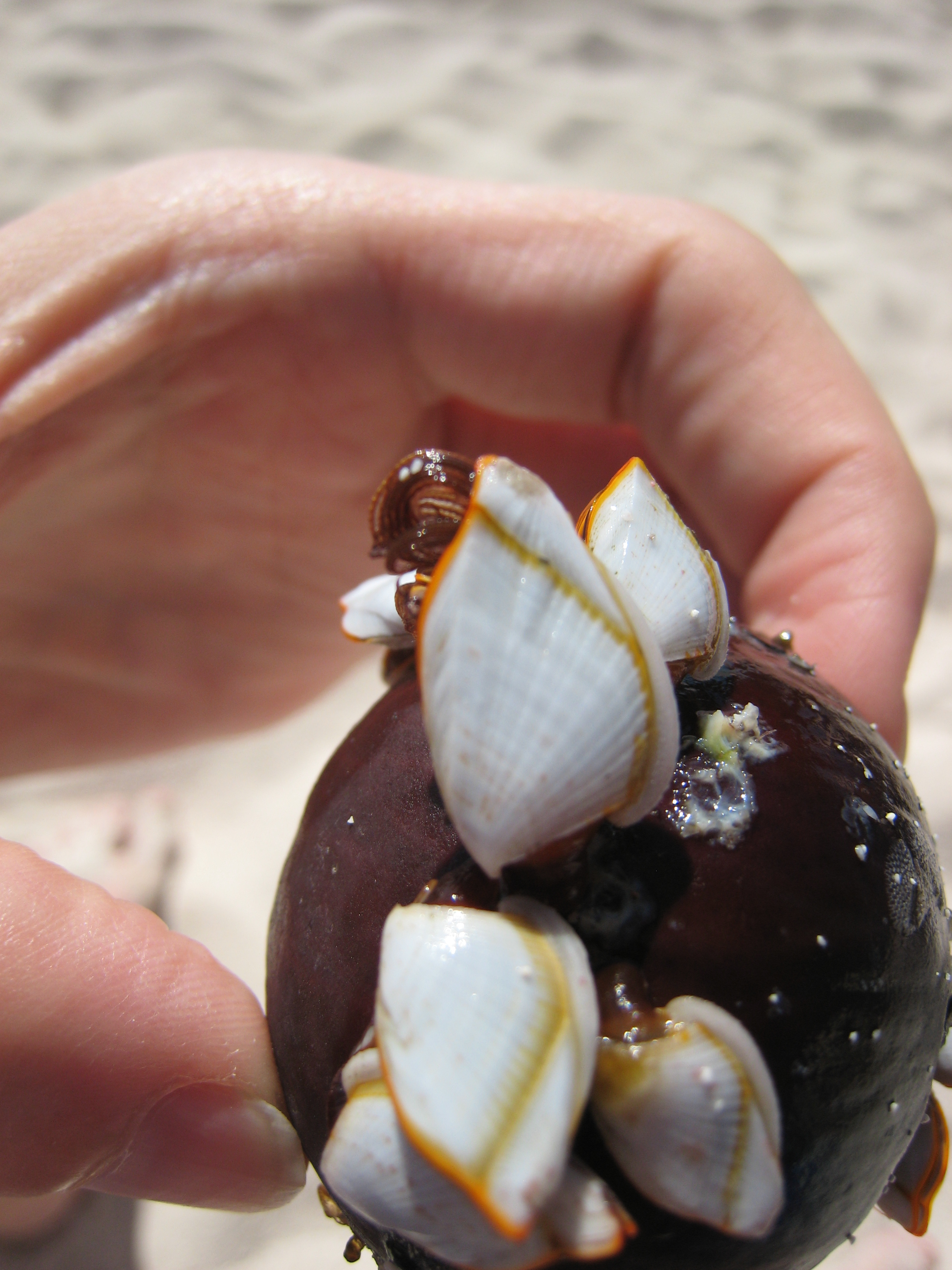 Several Lepas anserifera on a small coconut found on Akumal beach, Mexico.